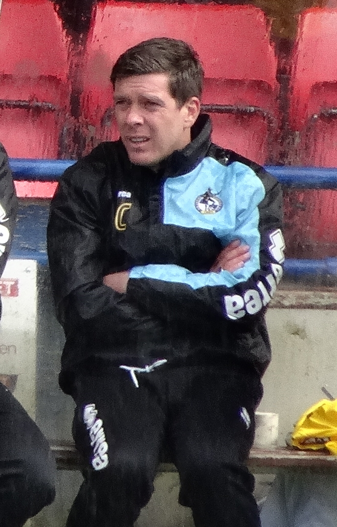 Darrell Clarke during Bristol Rovers' match against York City at Bootham Crescent, York on 30 April 2016